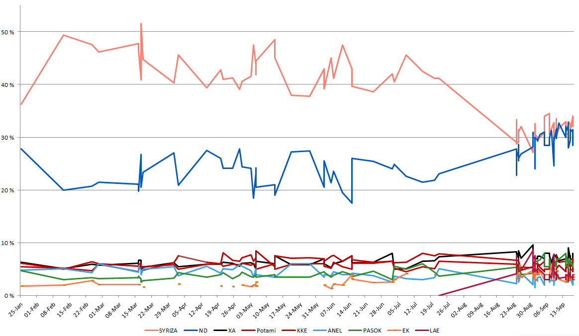 Polls for Greece 2015 2nd legislative election